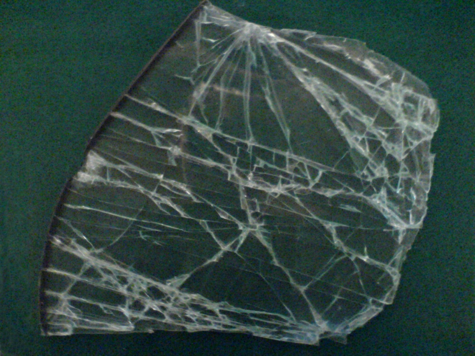 demolished windshield fragment of the car, Astrid of Sweden, Queen of the Belgians, was sitting in when she was killed by an accident on August 29, 1935 (exposition item of the local heritage museum in Küssnacht, Switzerland)